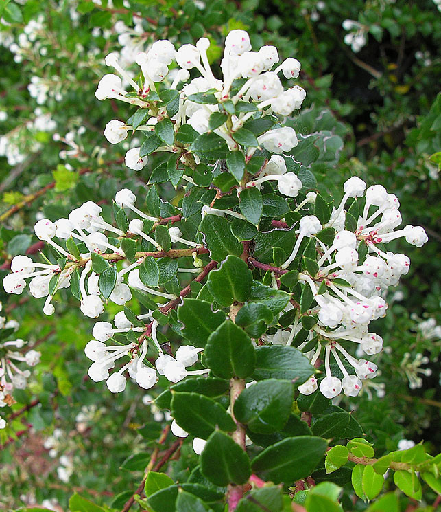 A Patagonian Chaura known as Hued-hued. Van Dusen Gardens, Vancouver. In context at